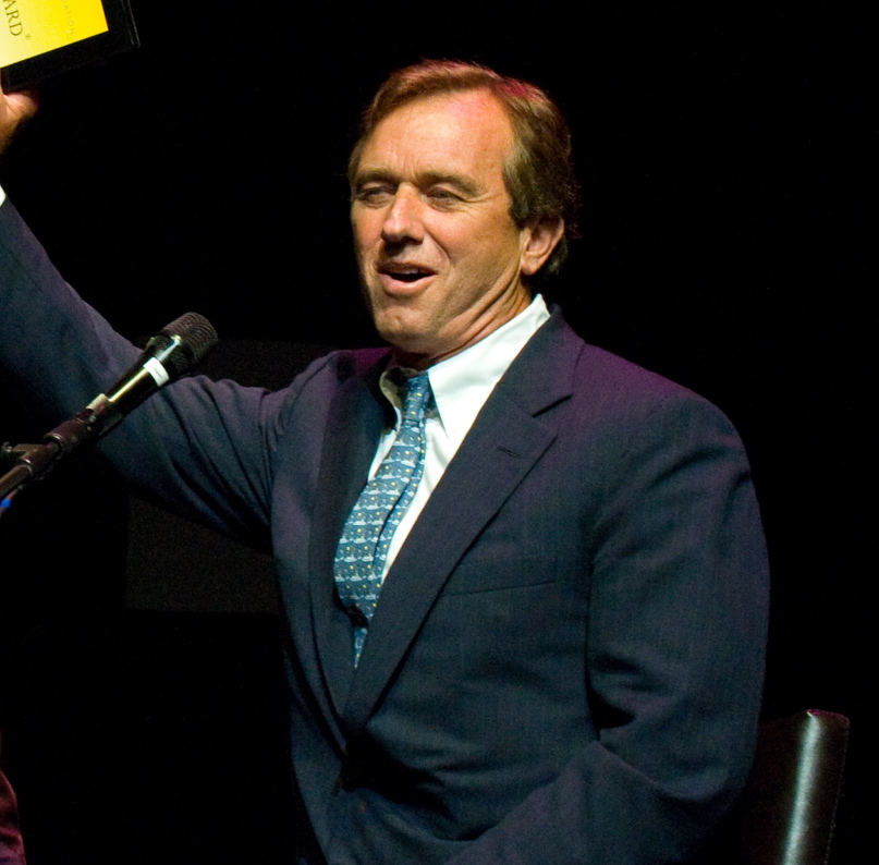 Nick and Helen Forster present Robert F. Kennedy, Jr. with the E-Chievement Award during an eTown taping at the Democratic National Convention.